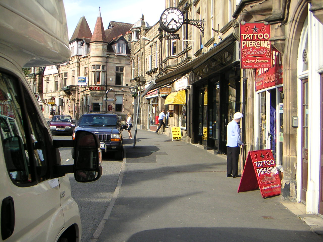 Dale Road (A6) exiting the edge of Matlock Town, showing some of the independent shops and businesses. Behind the camera position the development ends with the road entering a more-rural aspect leading to Matlock Bath